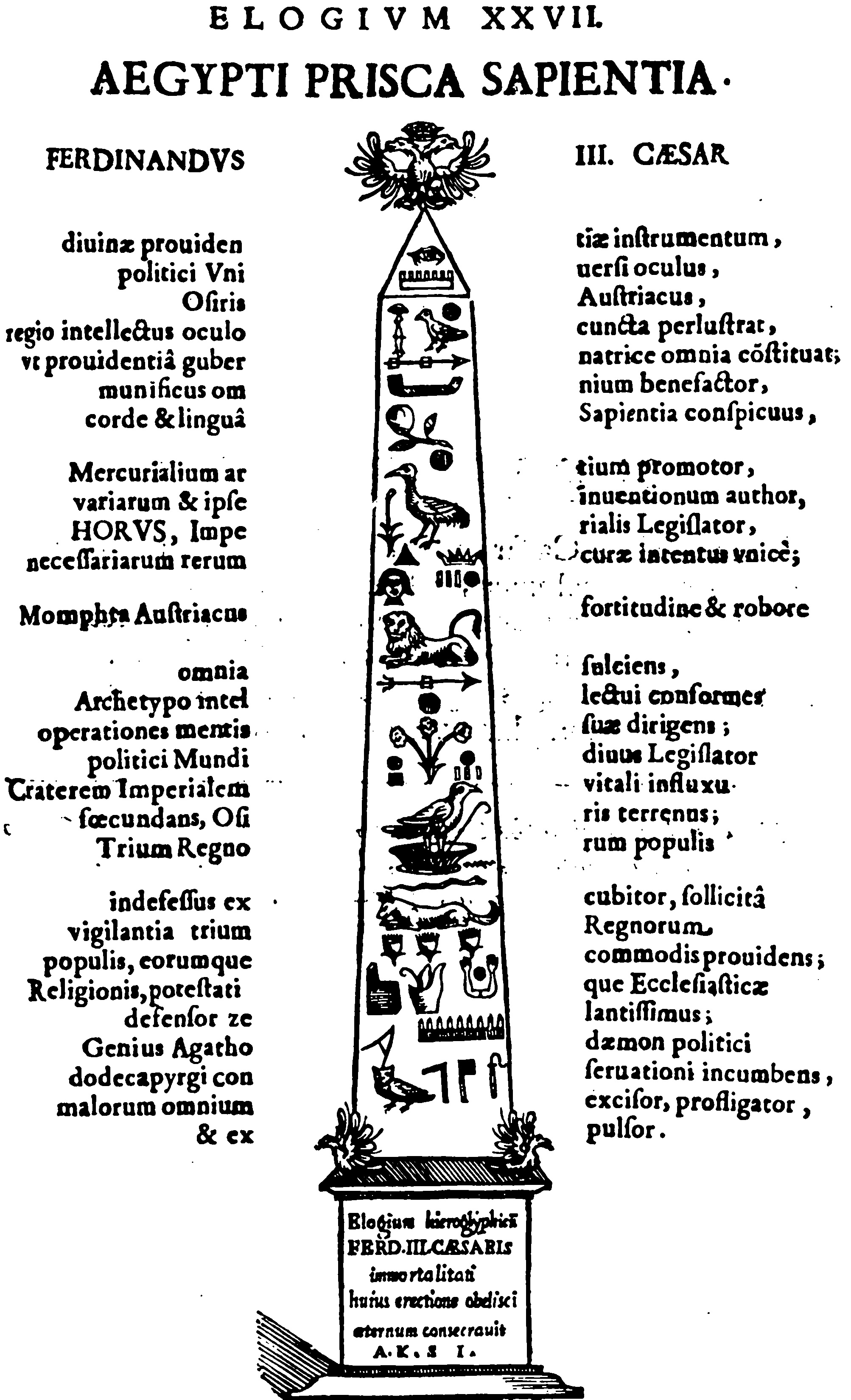 Obelisk, containing Athanasius Kircher's fanciful hieroglyphic translation, an encomium to Frederick III. From Athanasius Kircher's Oedipus Aegyptiacus, 1652